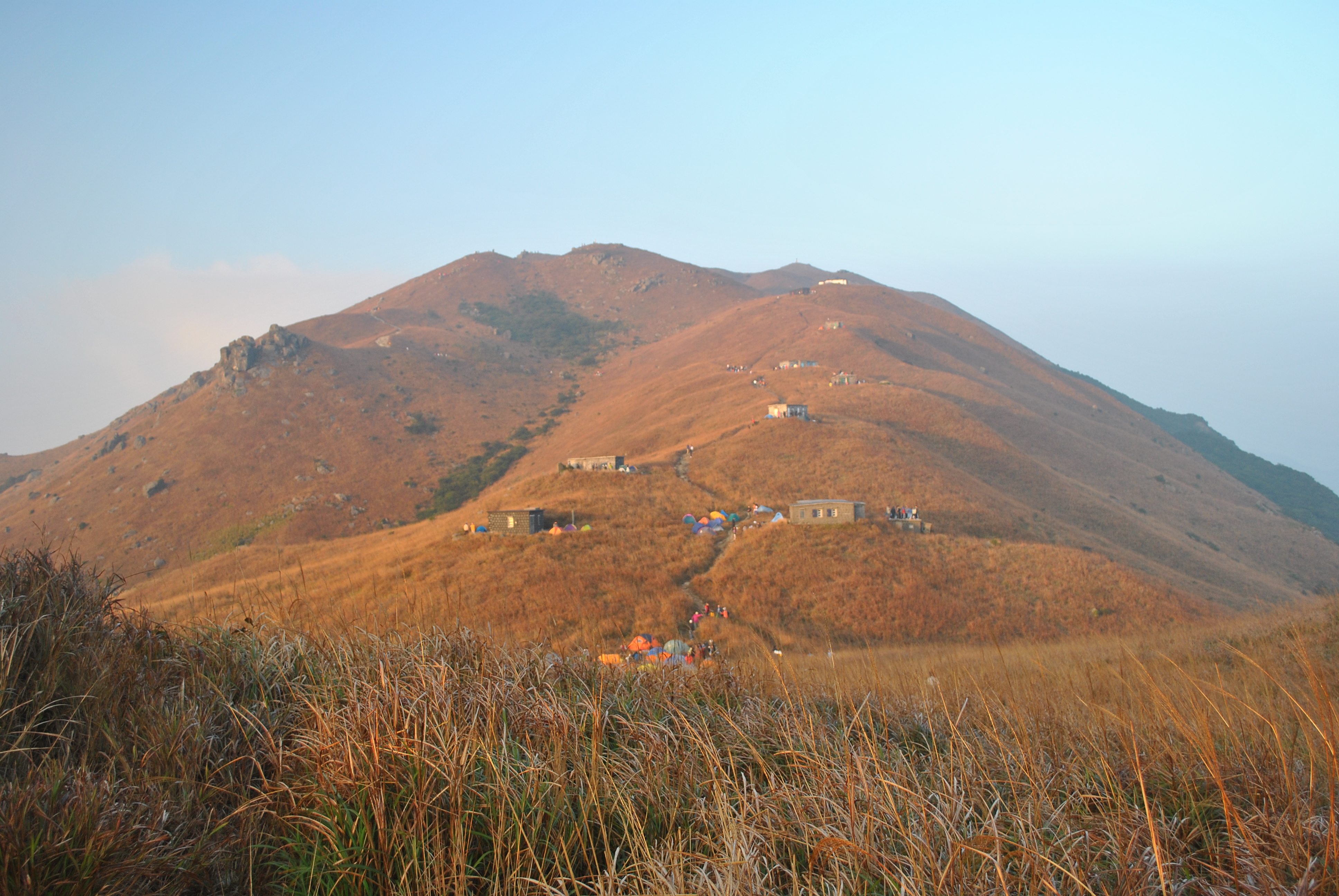 Lantau Camp and vistor at Sunset Peak